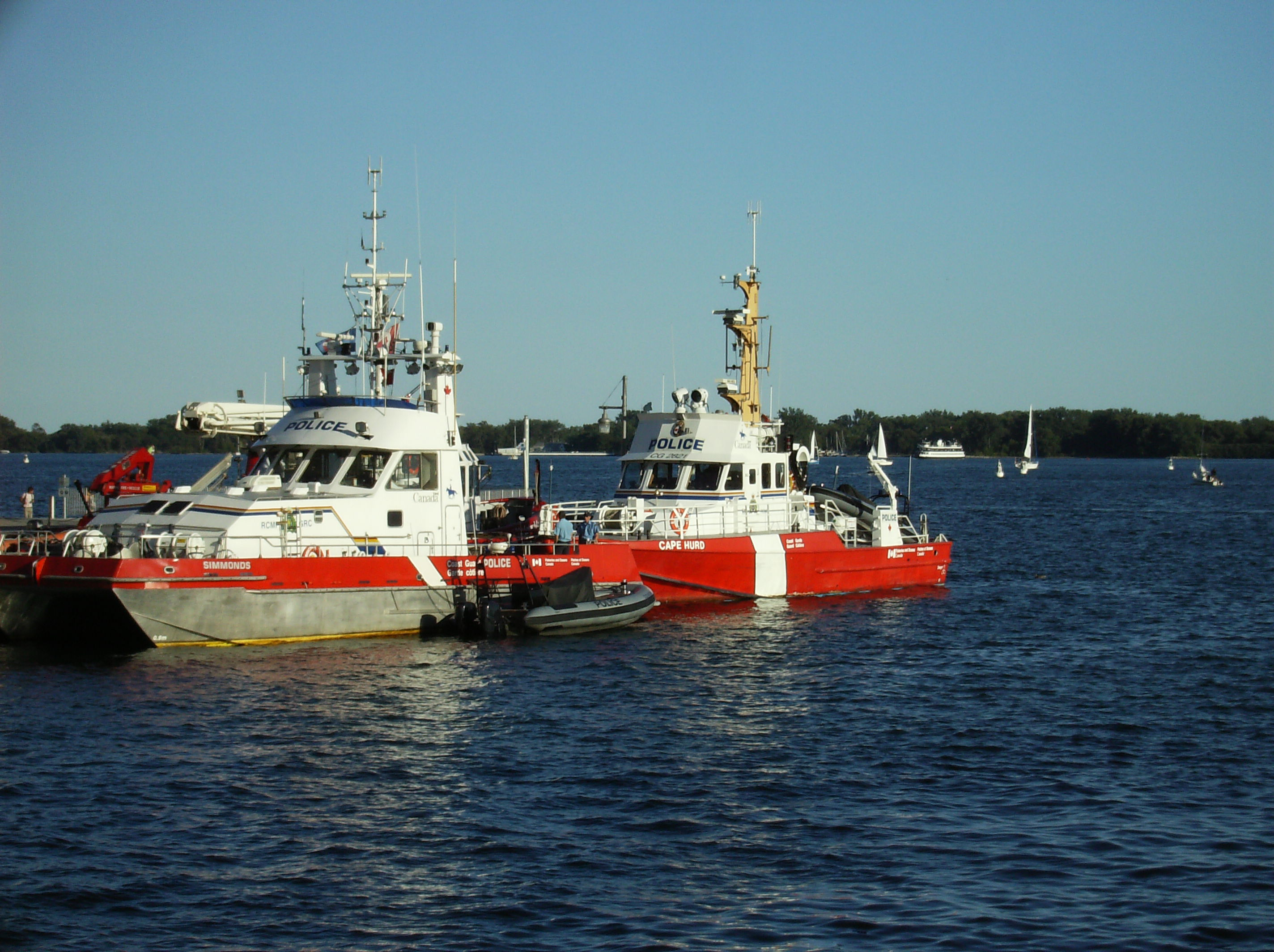 police boats toronto : Cape Hurd and Simmonds